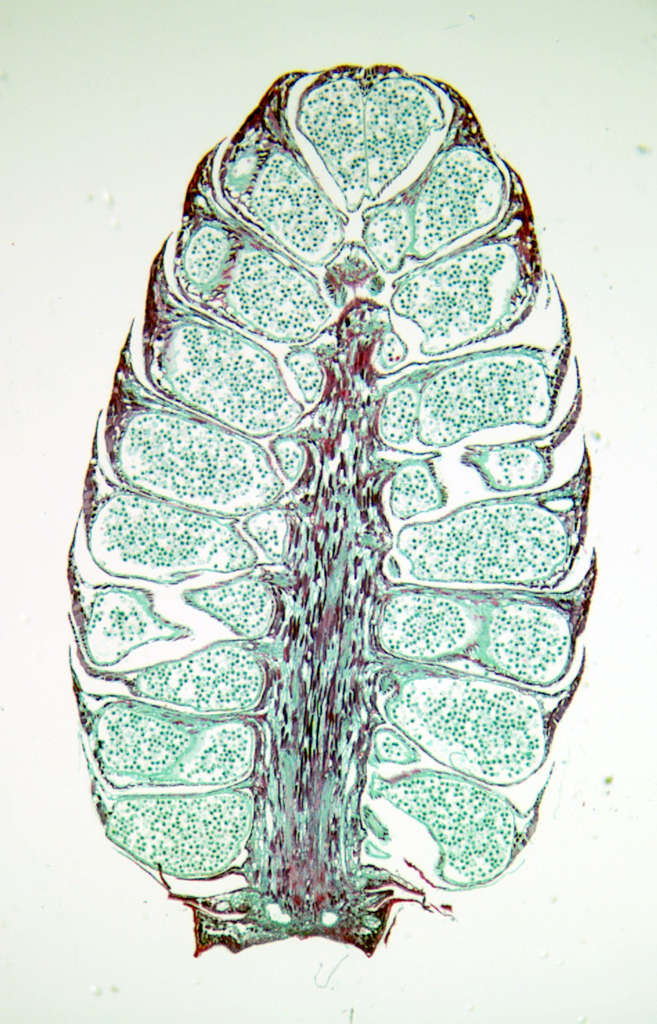 Light micrograph of a longitudinal section of a pine pollen cone, showing microsporophylls and microsporangia